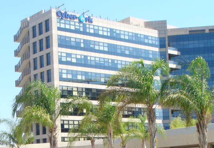 CyberArk R&D Center